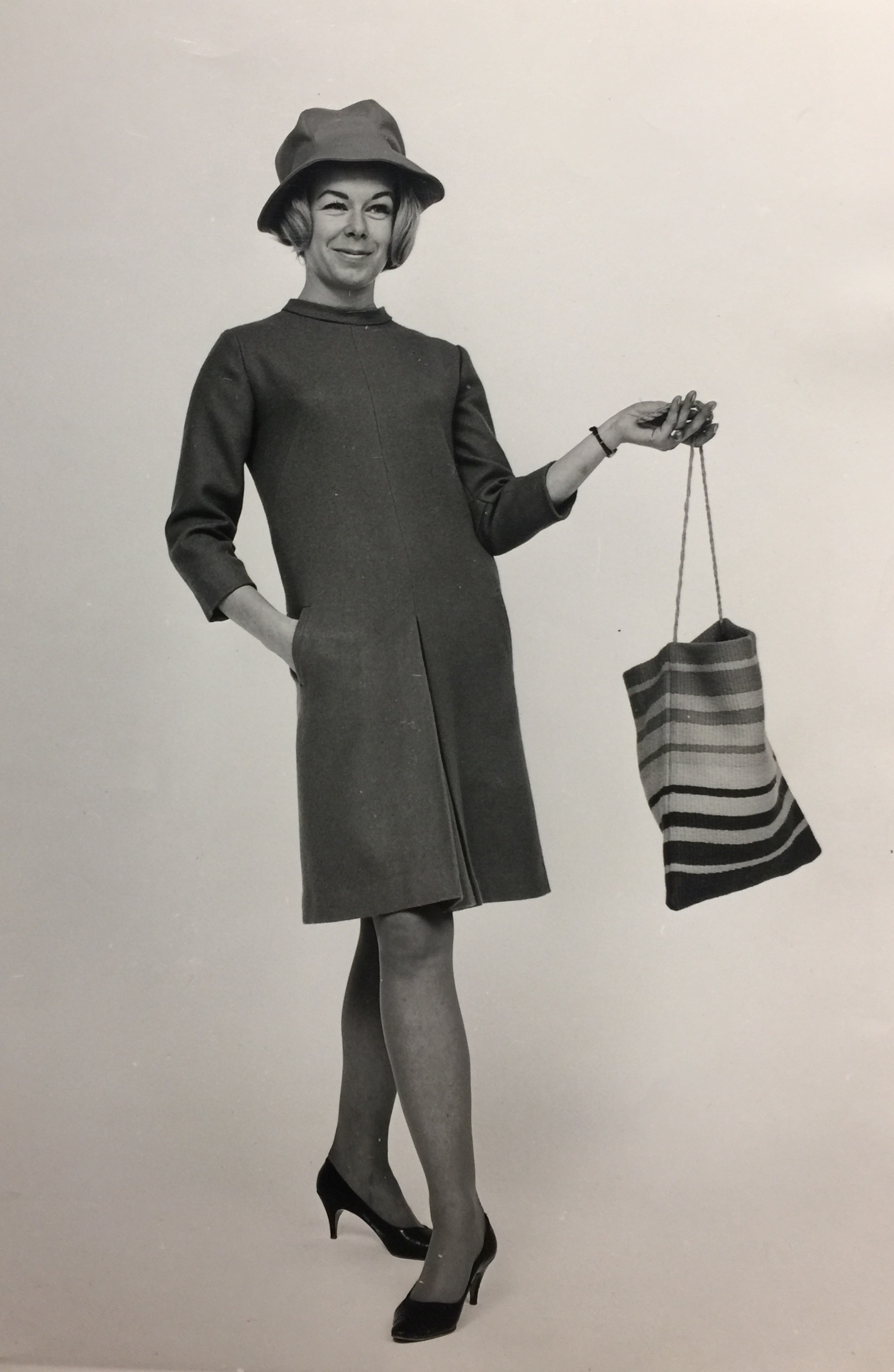 Dress designed by the Norwegian craftsman/designer/textile artist Lise Skjåk Bræk, around 1967